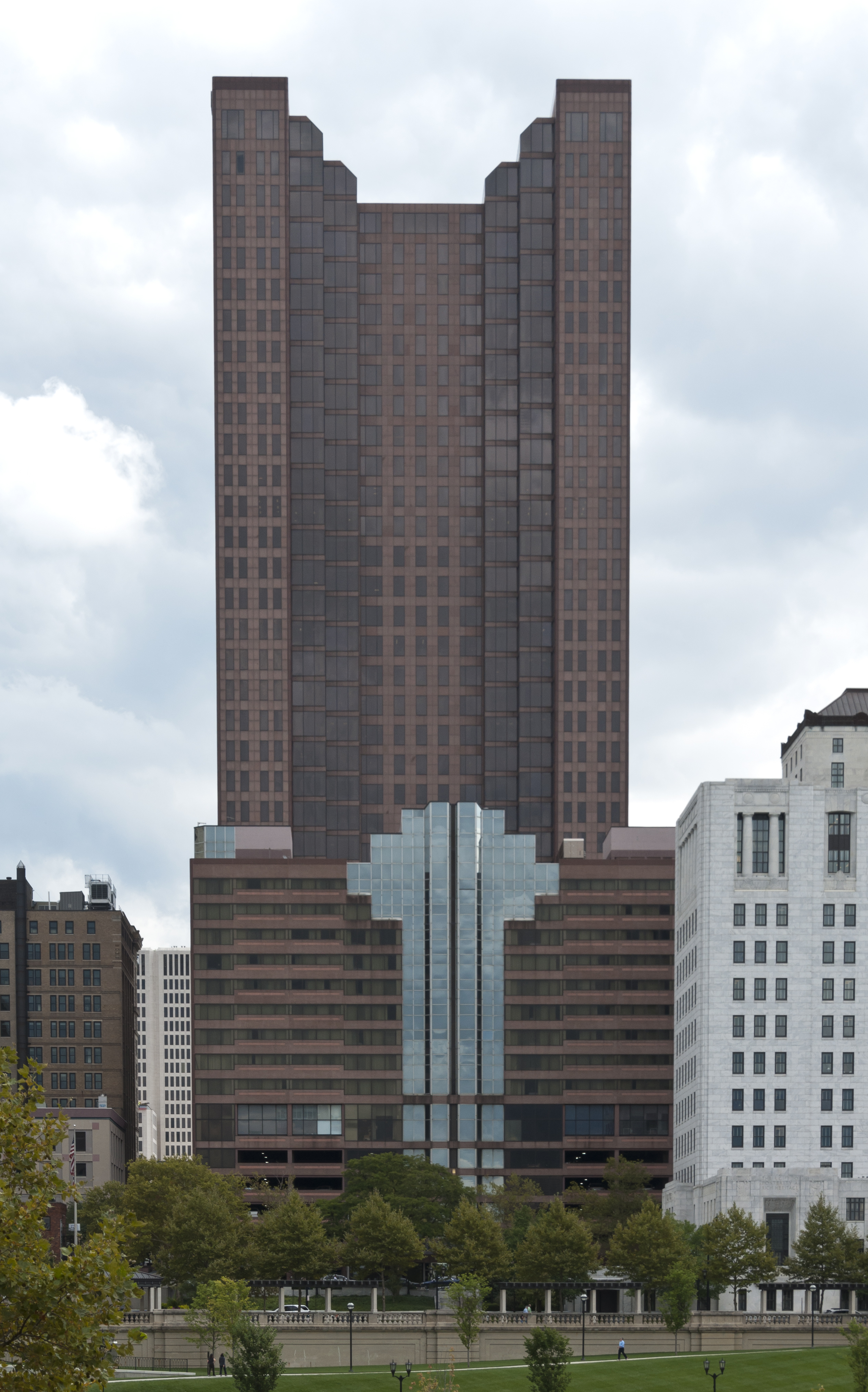 The Huntington Center also known as the Huntington Bank Building is a complex located in Columbus Ohio. It is the headquarters of Huntington Bank. At 512ft (156m) tall, and has 37 floors it is the 4th tallest building in Columbus, and the tallest constructed in the 1980s in Columbus.